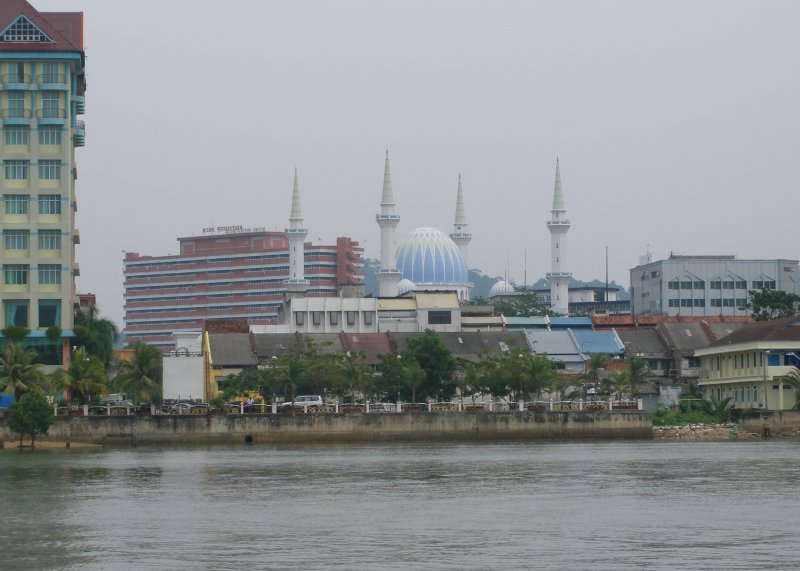 A Kuantan skyline view from Kuantan River.